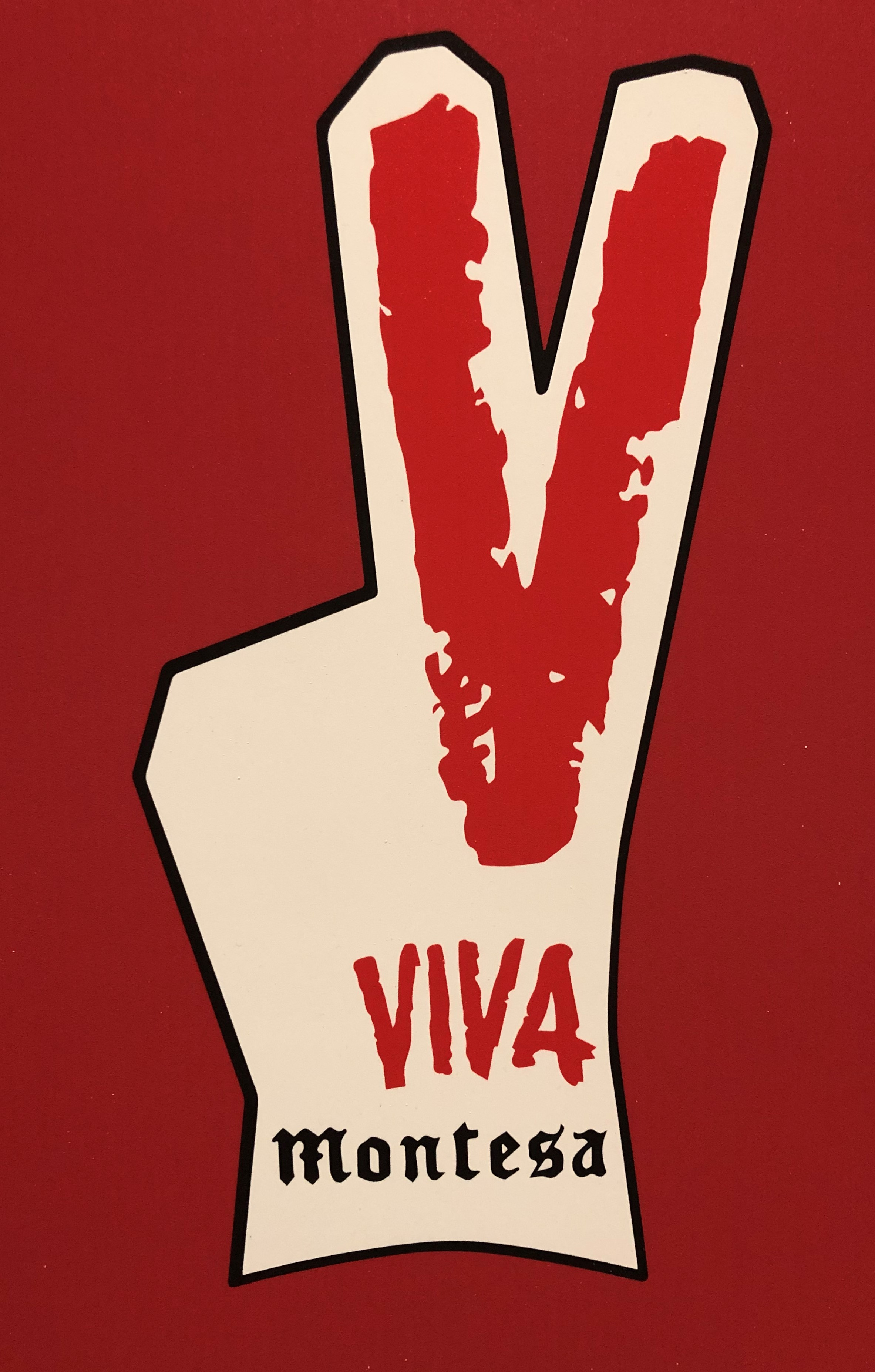 Viva Montesa symbol, late 60s